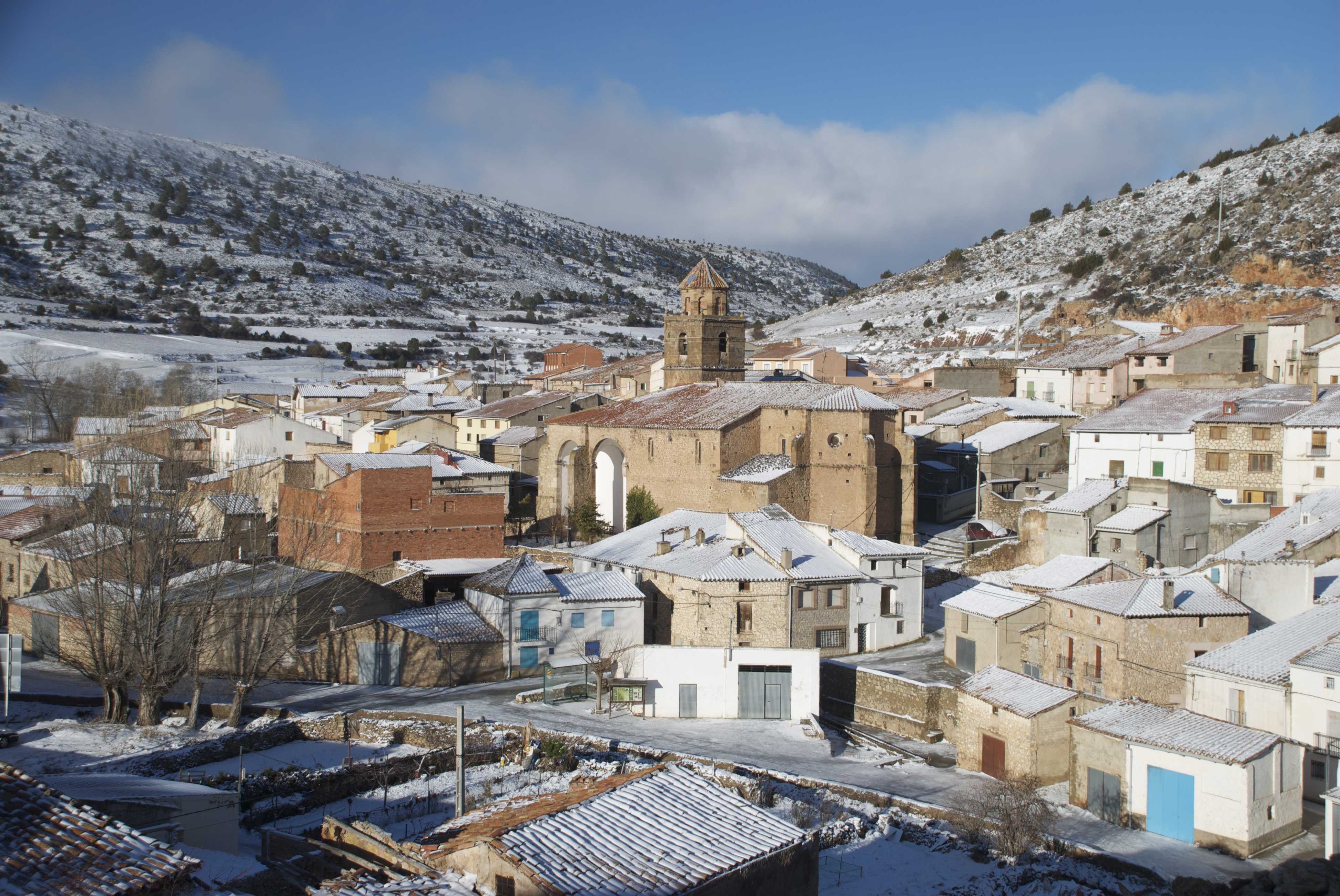 Snow view in Monterde de Albarracín